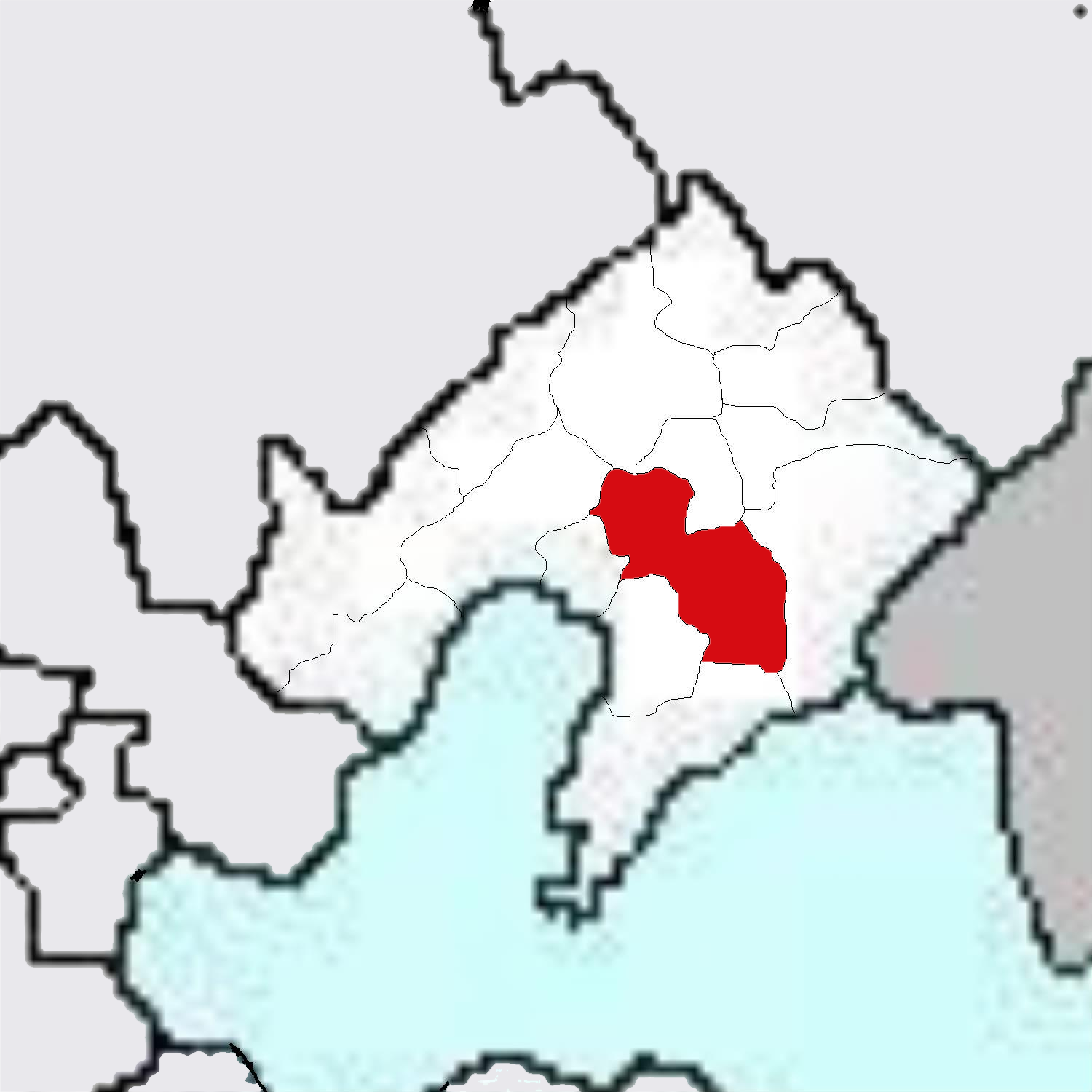 Maps of Liaoning Province, China